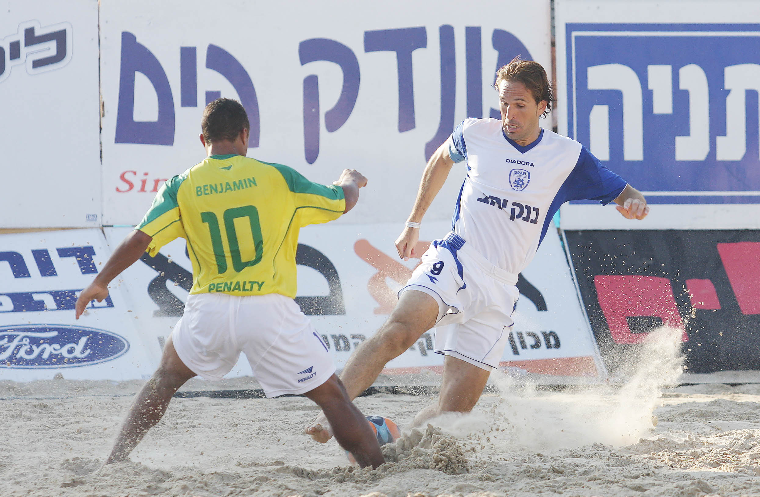 Photo from the friendly match (called the Solidarity Cup) between the Israeli and the Brazilian beach soccer teams, that occured on 11 July 2008, at the Poleg beach in Netanya. The game was played to note 60 years of Israeli independence.